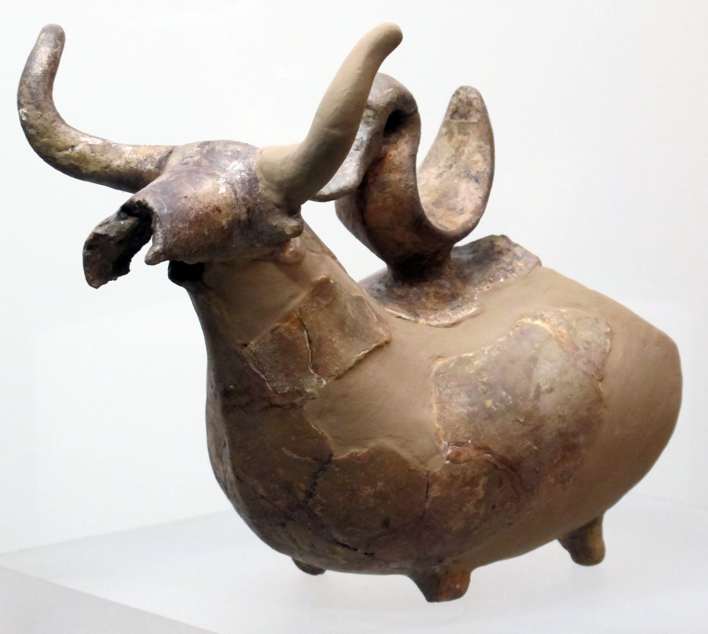 Etruscan antiquities in the Archeological Museum of Bologna